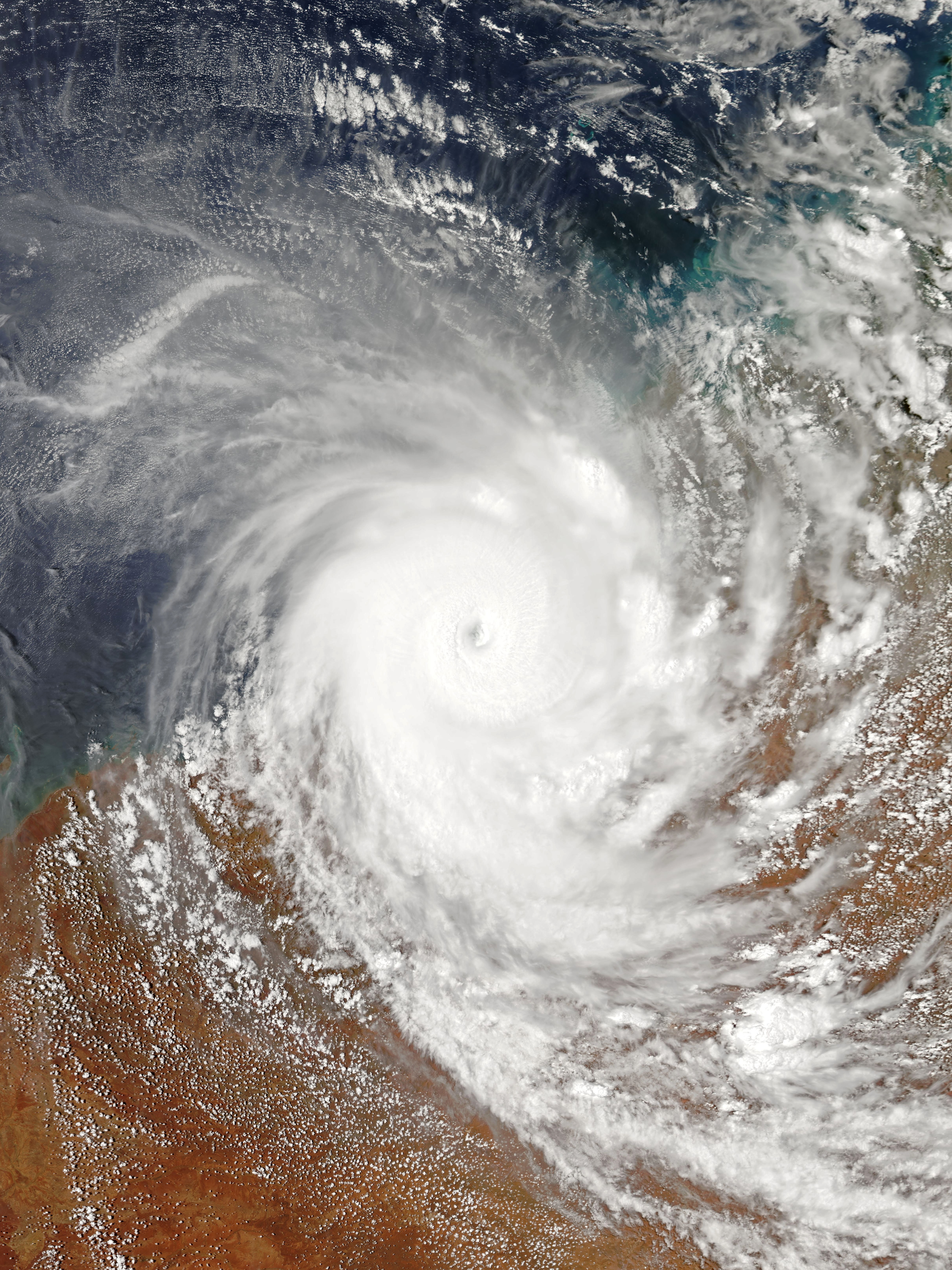 Severe Tropical Cyclone Laurence at peak intensity on 21 December 2009, shortly before making its second landfall over West Australia.